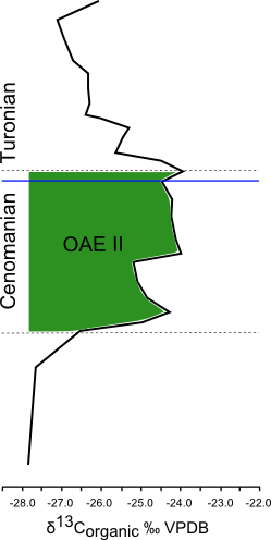 A carbon isotope curve for during OAE II